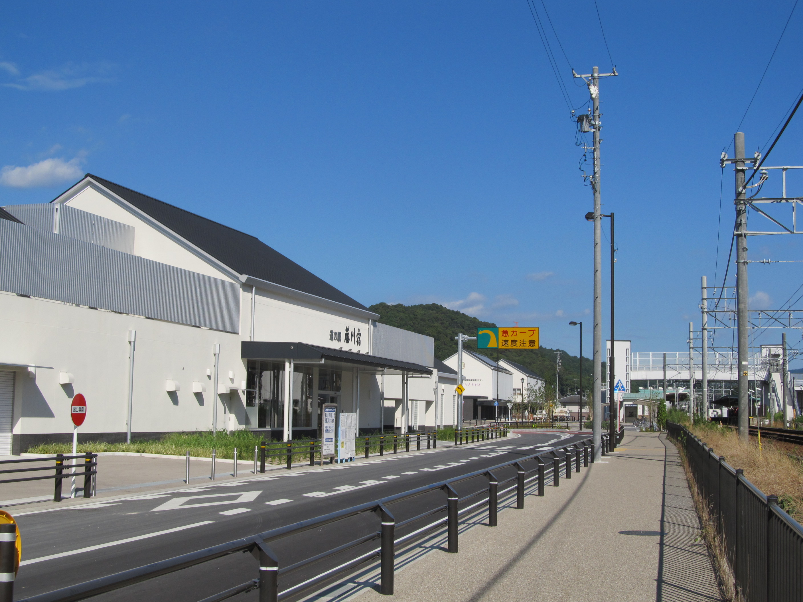 Aichi Prefecture Okazaki City Michinoeki-Fujikawashuku Roadside Station